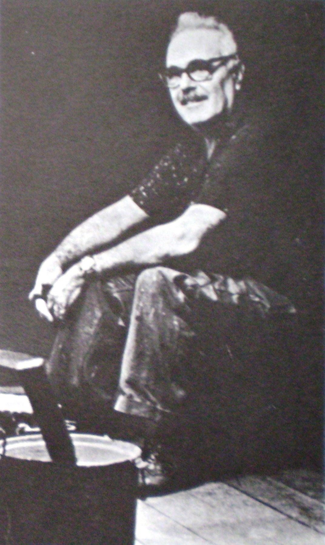 Raúl Soldi